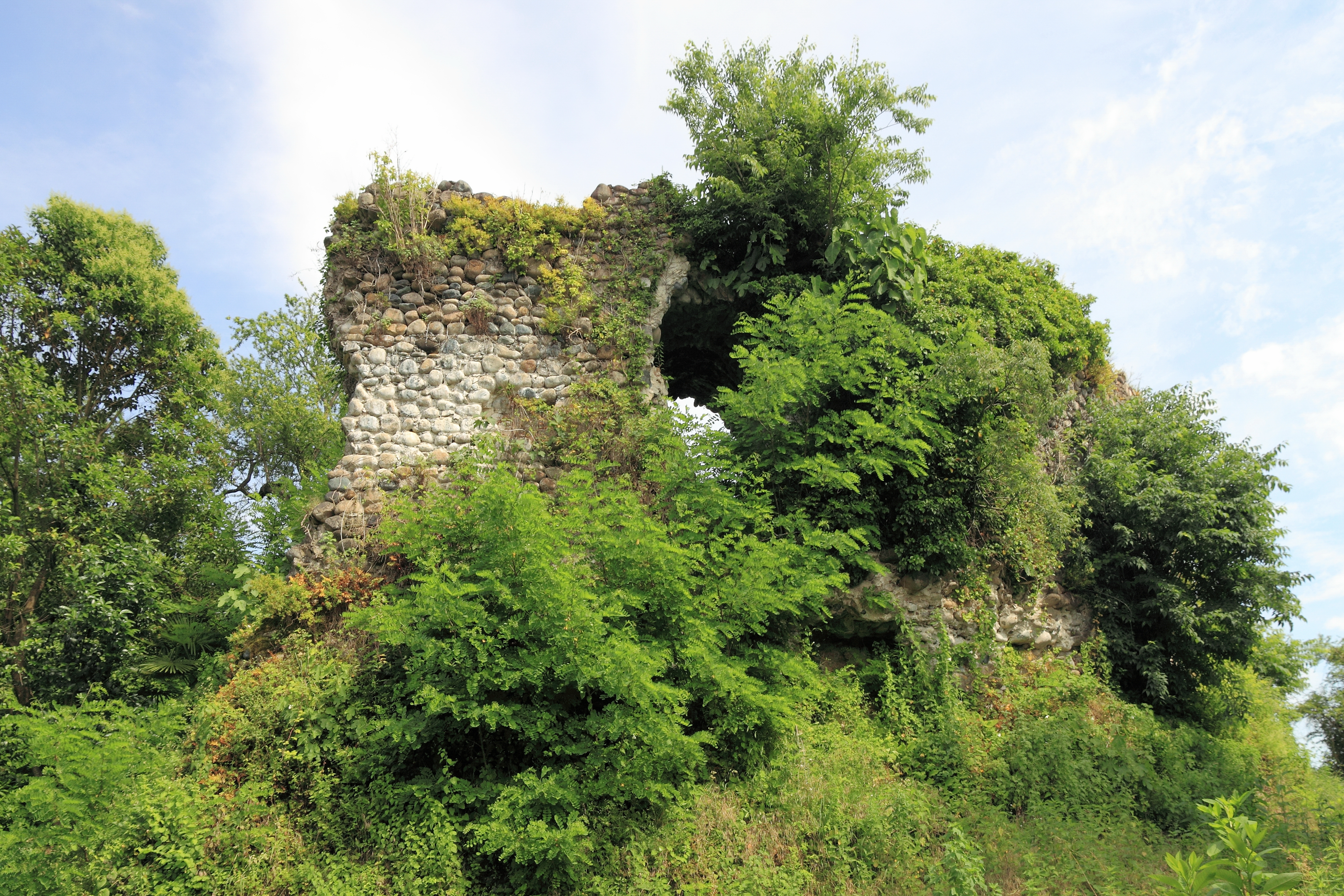 The remains of the Bagrat castle. Sukhumi, Abkhazia.